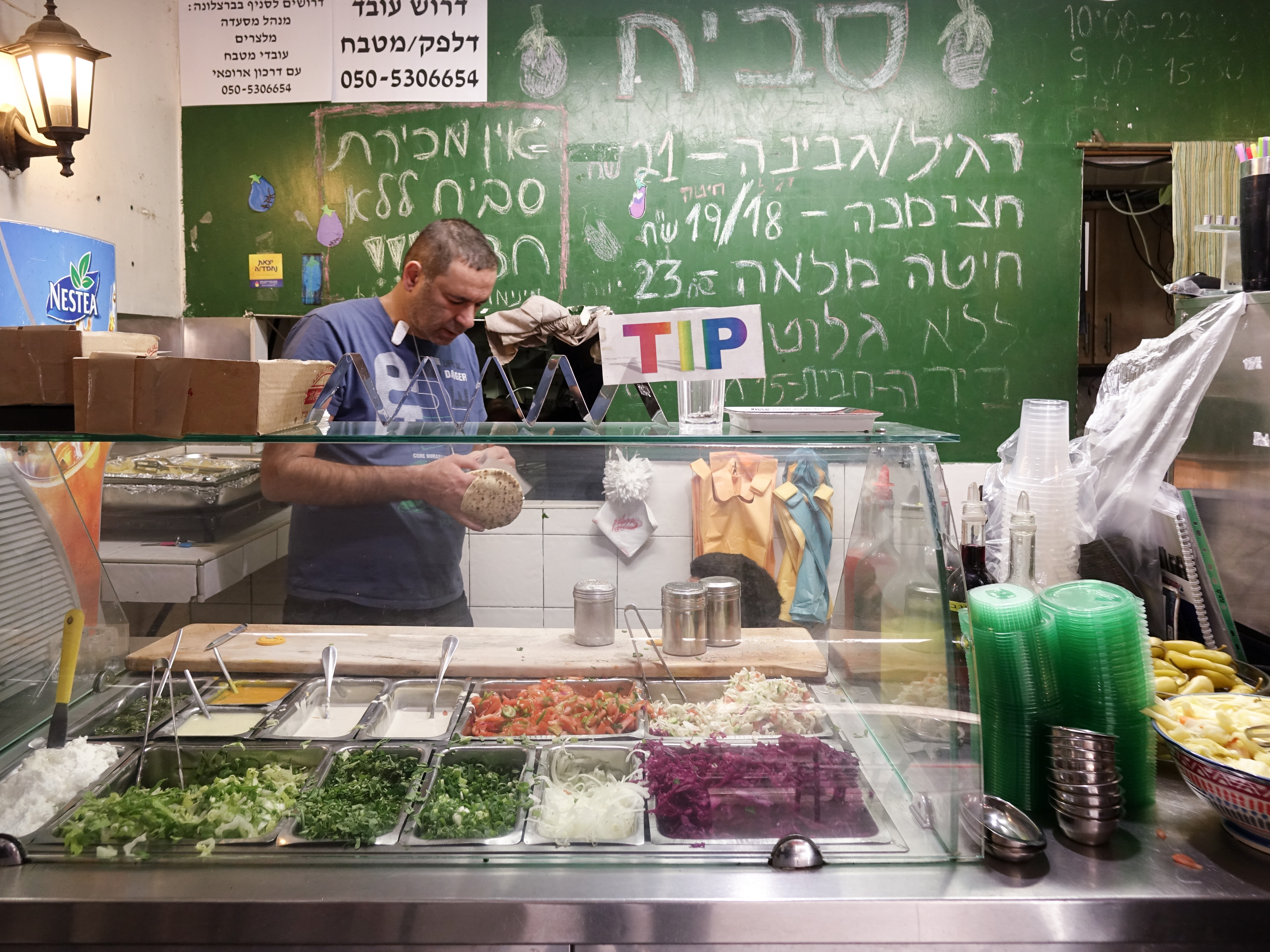 Sabih Tchernichovsky